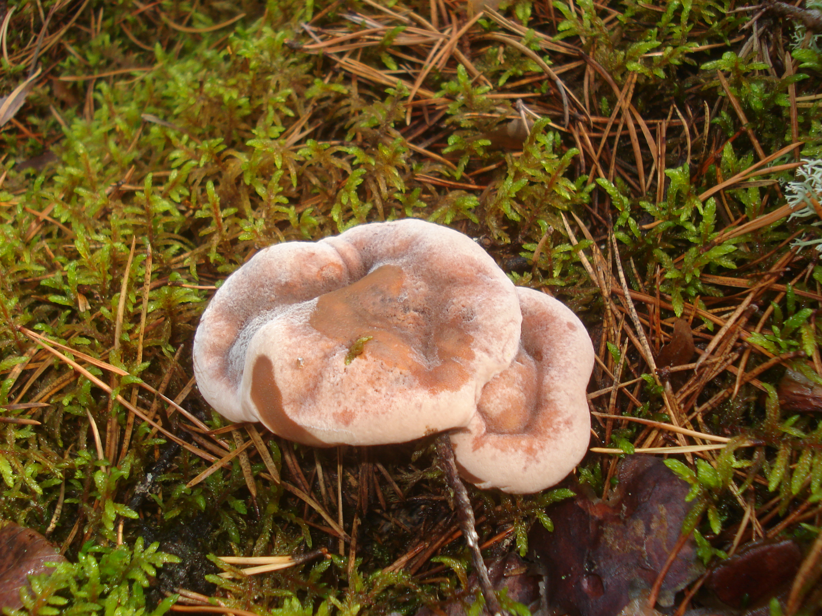 Bleeding Tooth Fungus (Hydnellum peckii)